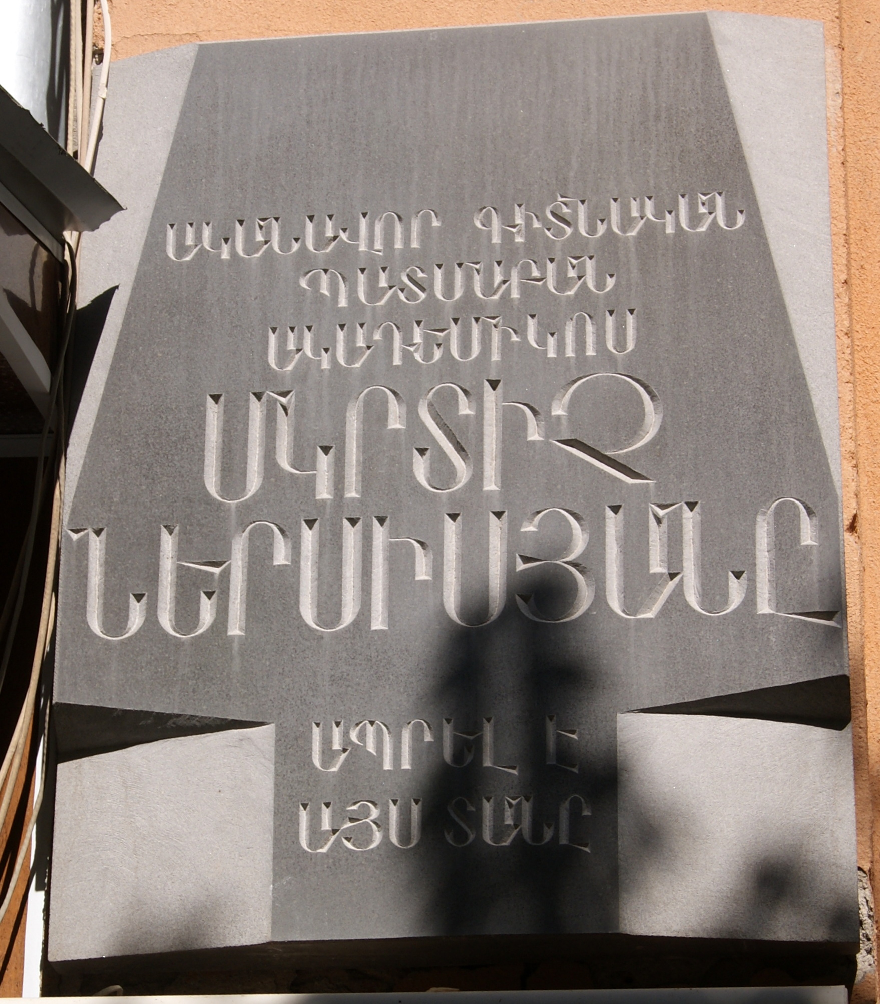 Cultural heritage monuments in Armenia